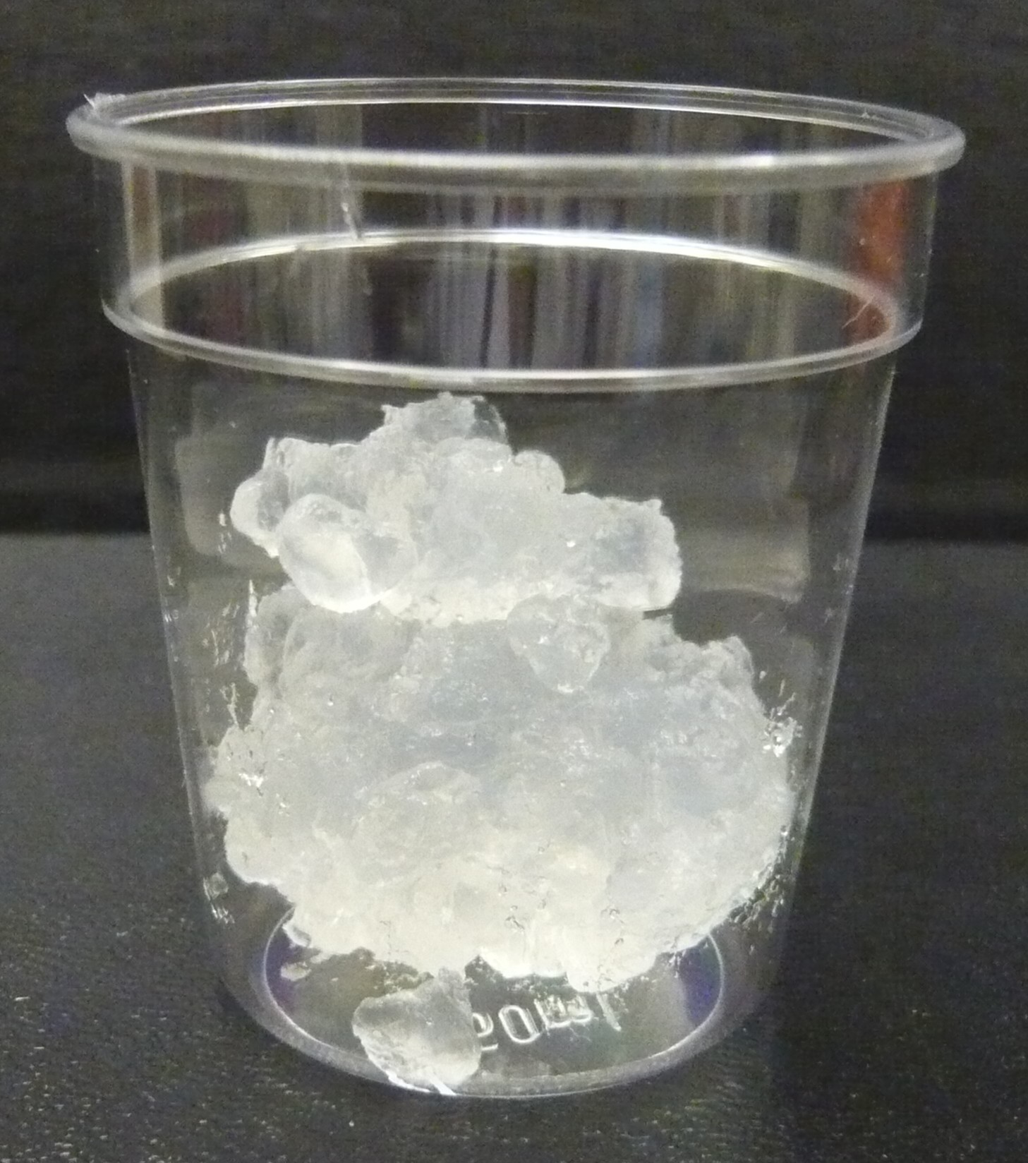 nanocellulose in a cup